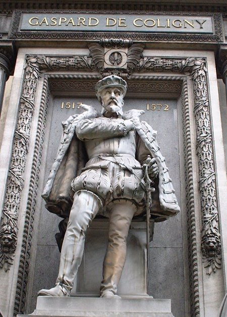 Gaspard de Coligny by Gustave Crauck. Marble, 1889. Chevet of the Oratoire Temple, 160 rue de Rivoli, Paris. Note: the inscription is mistaken, Coligny was born in 1519, not 1517.